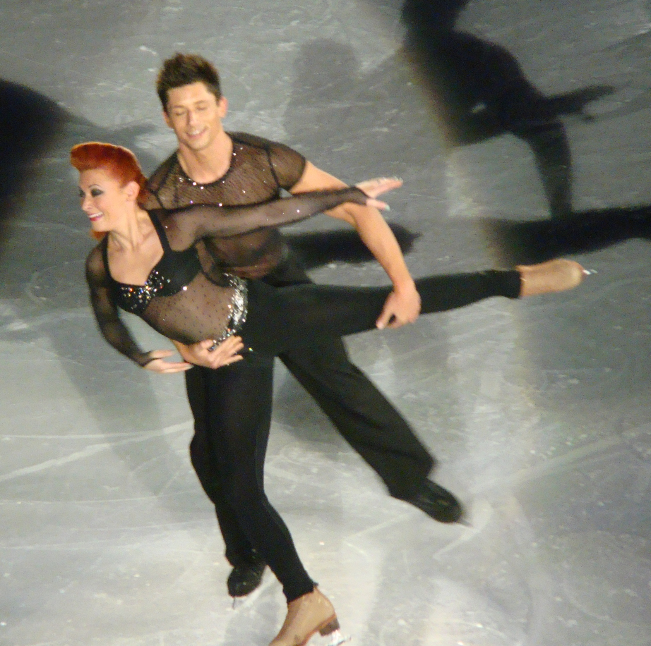 Melanie Lambert and Fred Palascak performing on the Dancing on Ice tour in 2010.